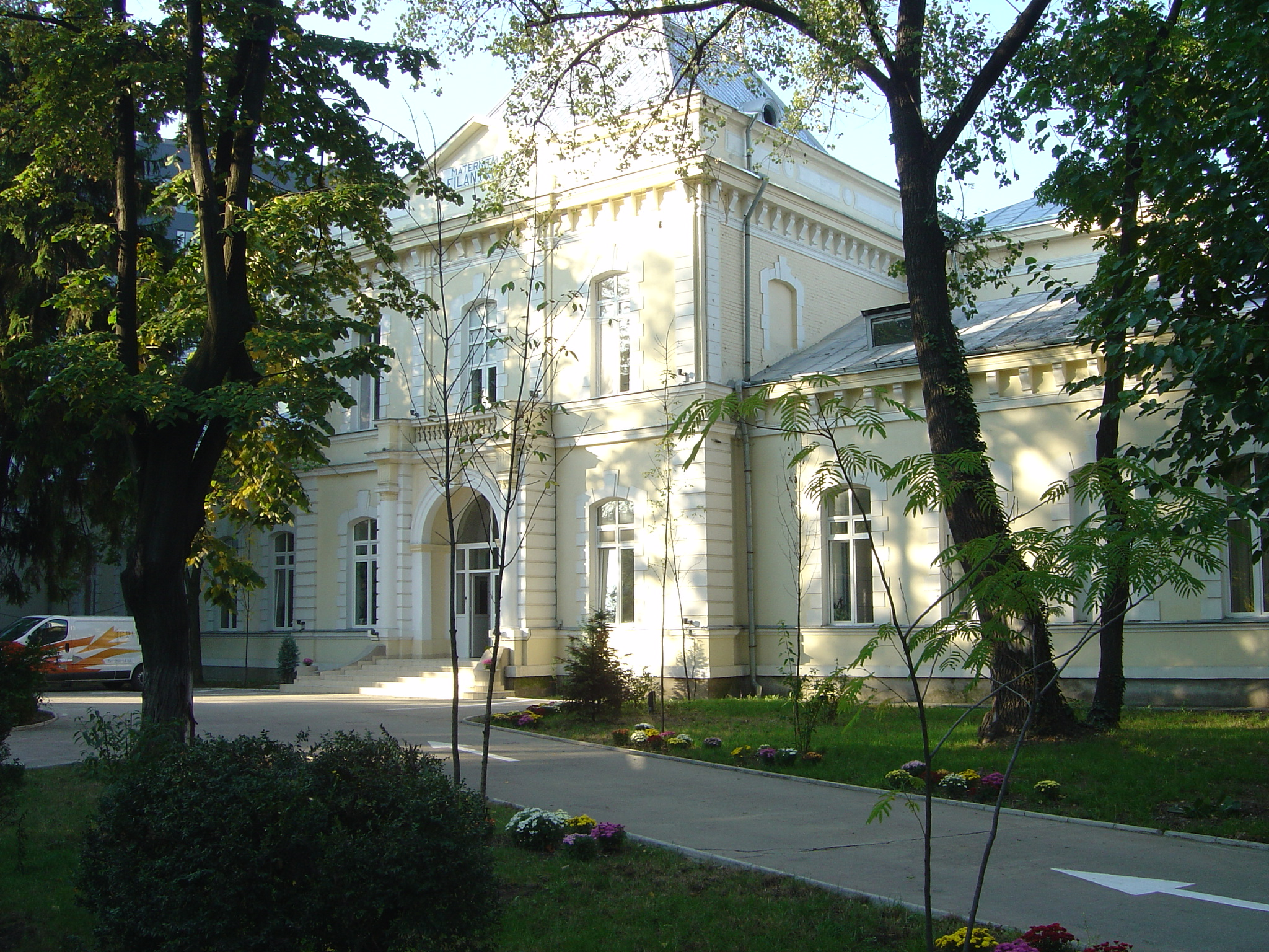 Clinical Obstetrics and Gynecology Filantropia Hospital (Bucharest)